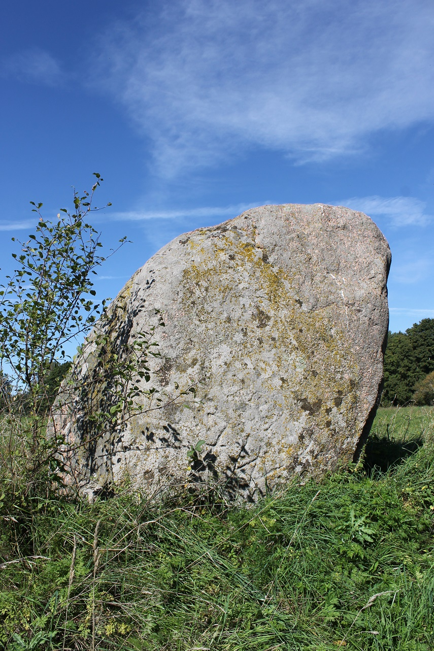 The ceremonial stone of the Apuolė, Skuodas district, LithuaniaLietuvių: Apuolės apeiginis akmuo, Skuodo rajonas, Lietuva